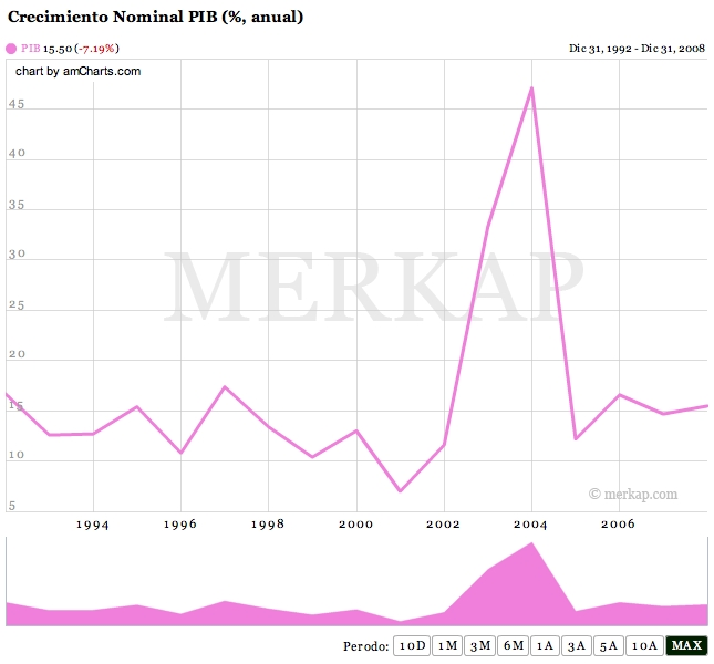 Gross Domestic Product of the Dominican Republic - Nominal value